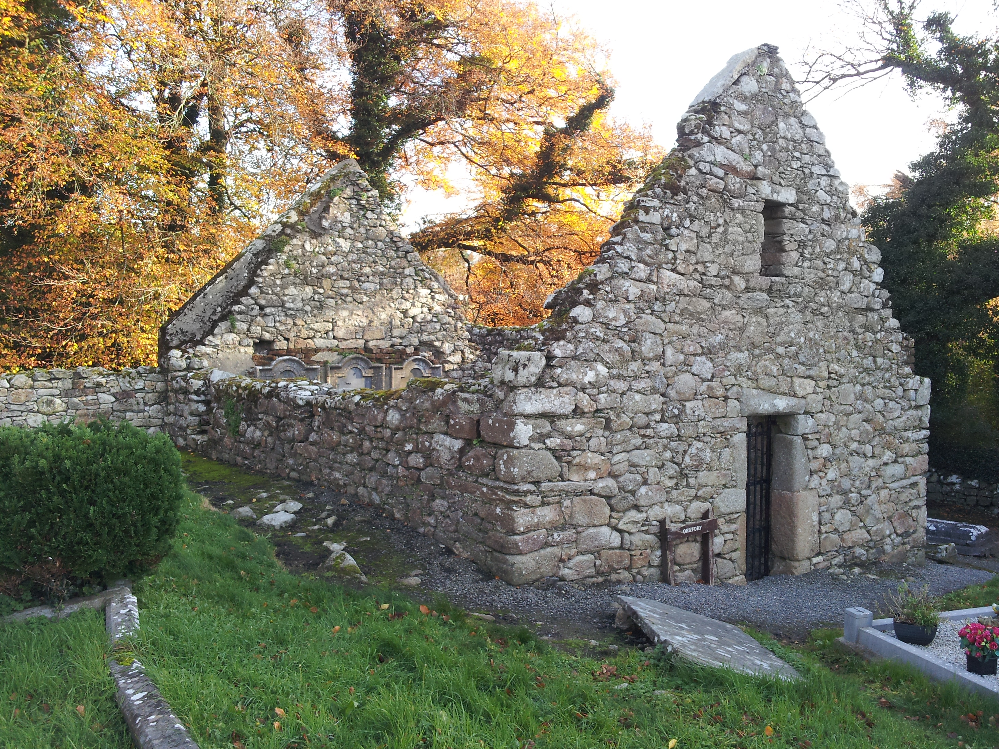 St. Mullins Early Medieval Ecclesiastical Site